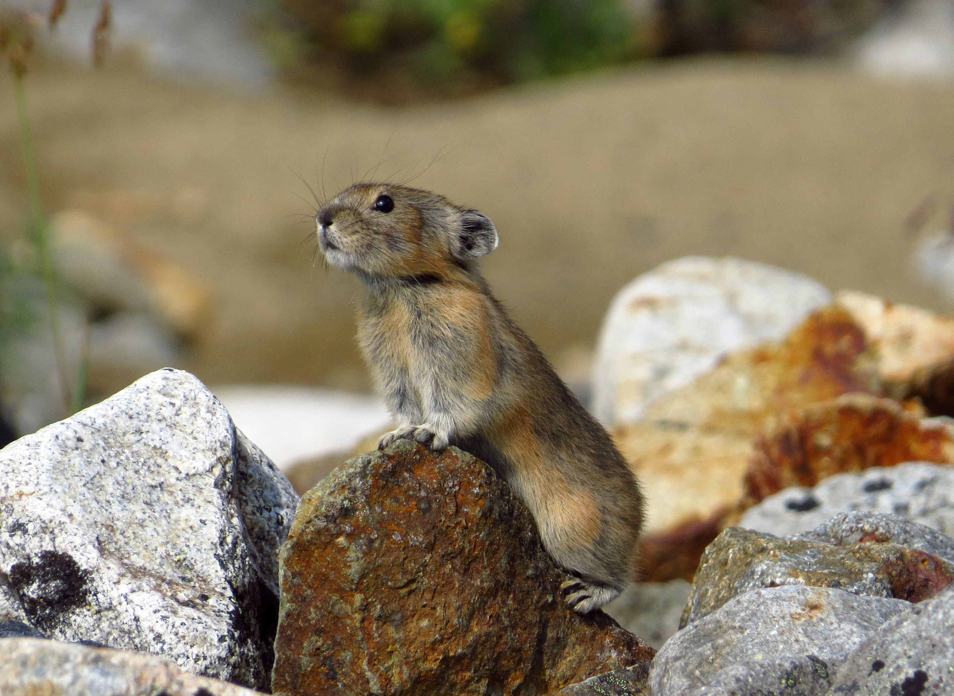 Watching northern pika (whistling hare) in Momsky National Park, Sakha Republic, Russia This image is related to the protected area of Russia number 1410127